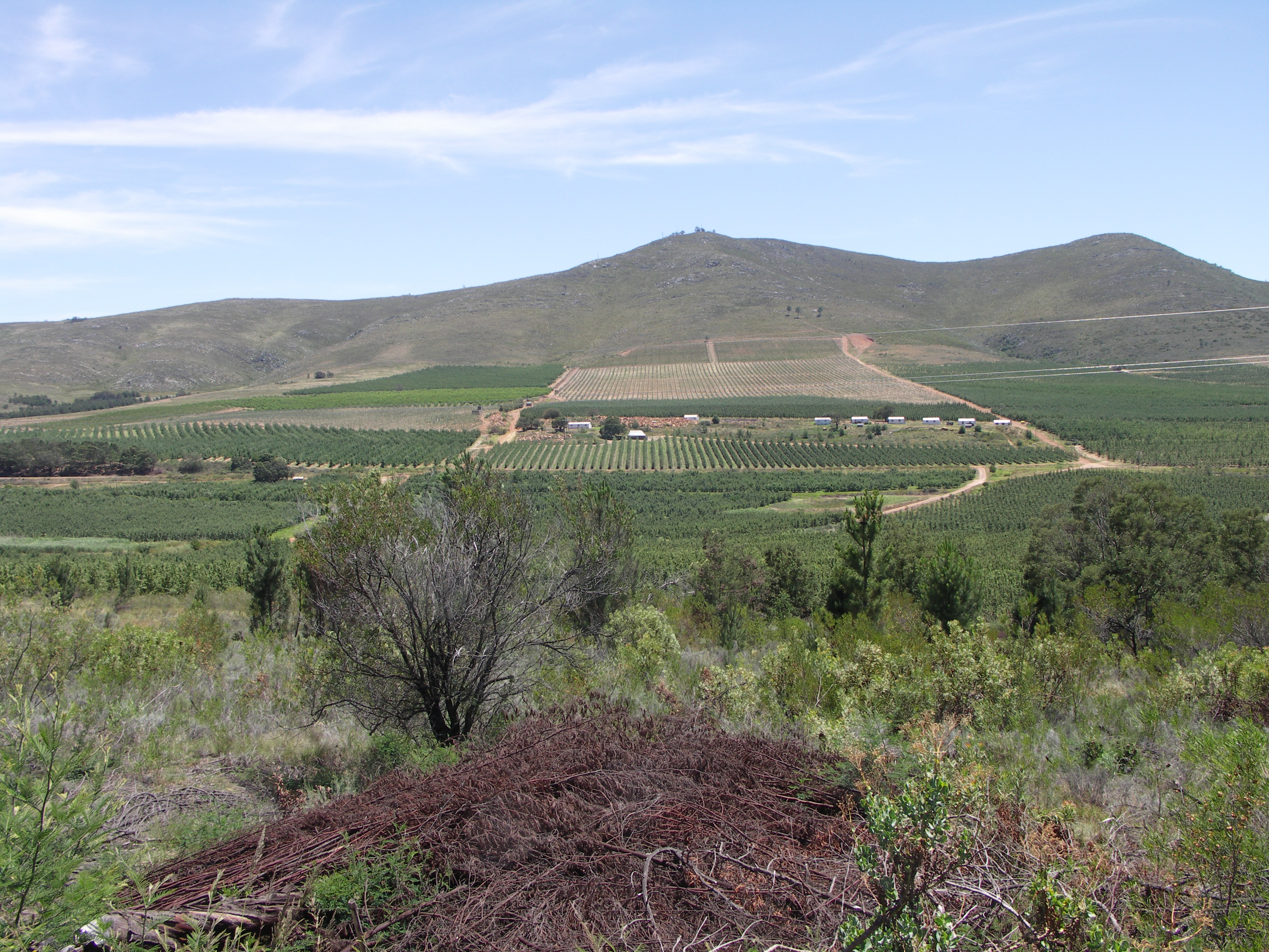 Agriculture in the Langkloof, Eastern Cape, South Africa. Photo taken looking north from the R62 Between Joubertina and Avontuur.